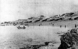 Baths beach of Póvoa de Varzim published in April 1882